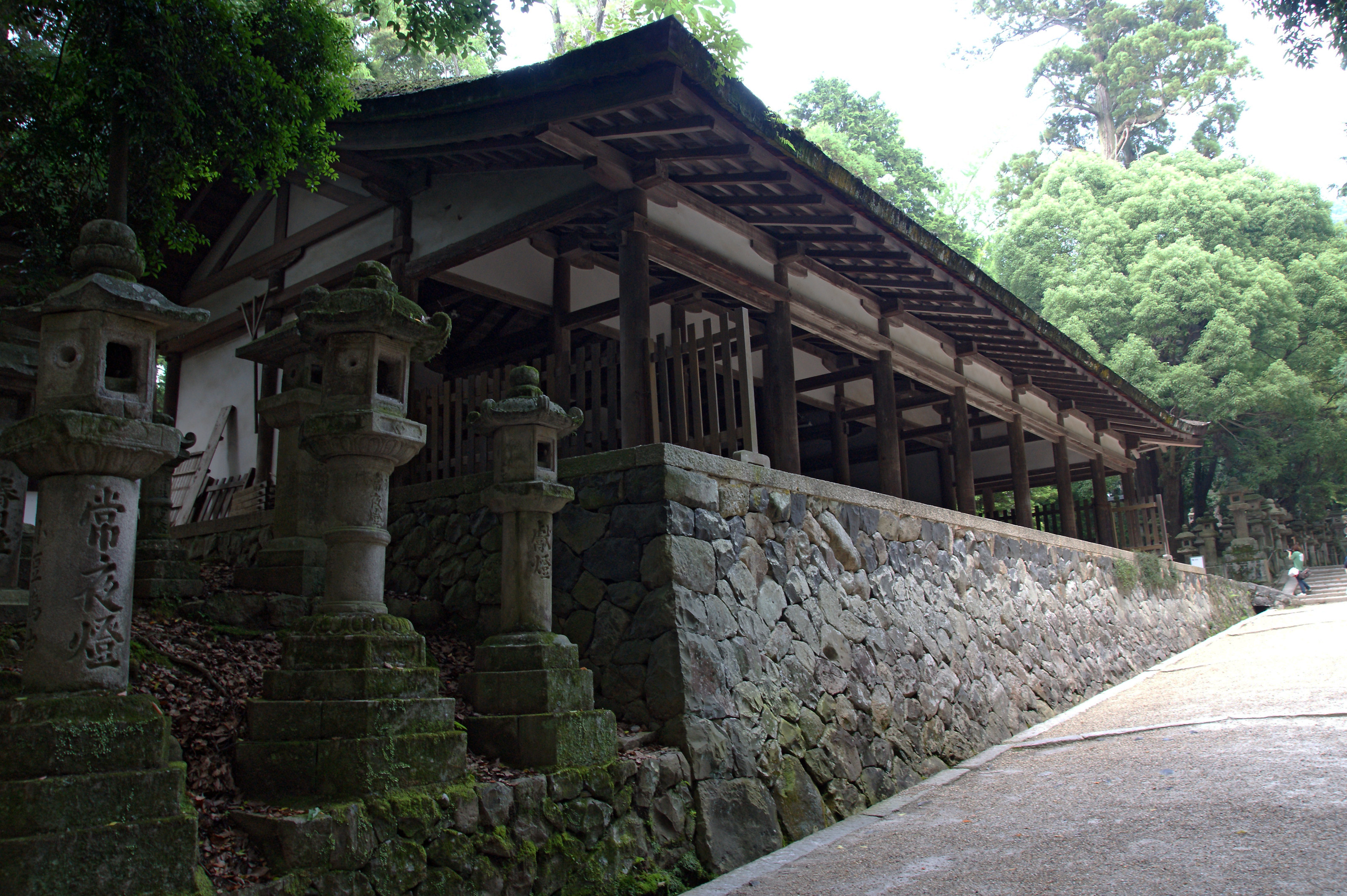 Kasuga-taisha in Nara, Nara prefecture, Japan